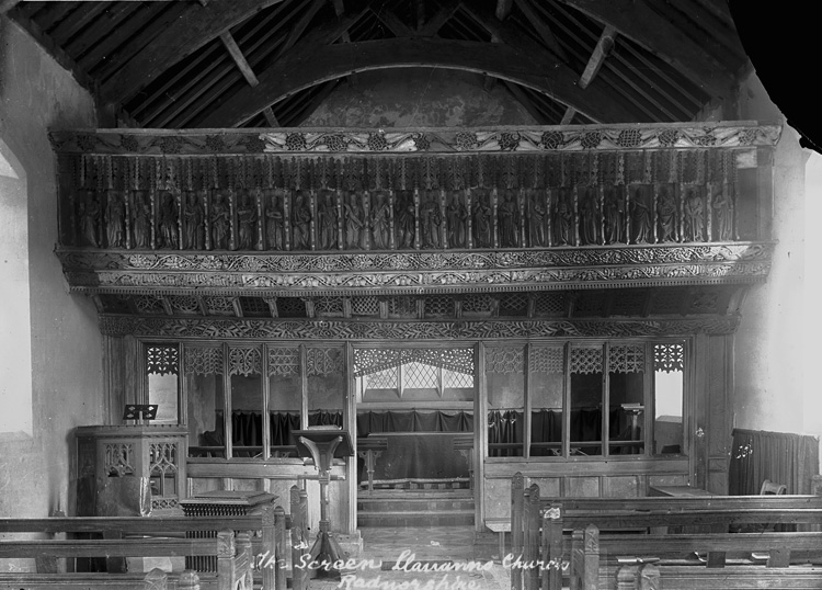 Photographer: P B Abery (1877?-1948) Date: [191-?] Medium: Glass negative Dimensions: 119 x 163 mm. Reference: PBA17/3 Record no.: 4457394